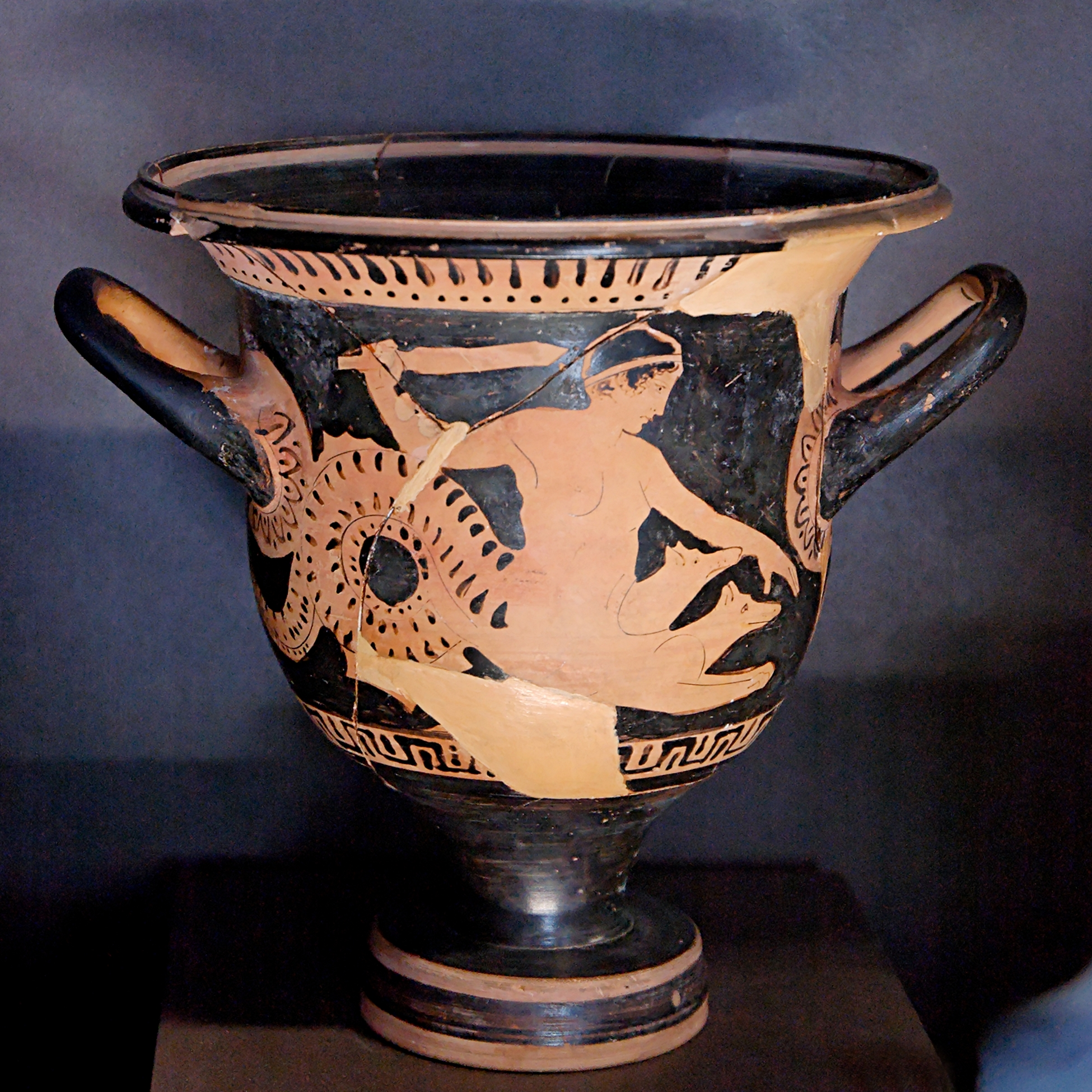 Scylla. Side A from a Boeotian red-figure bell-crater, 450–425 BC.